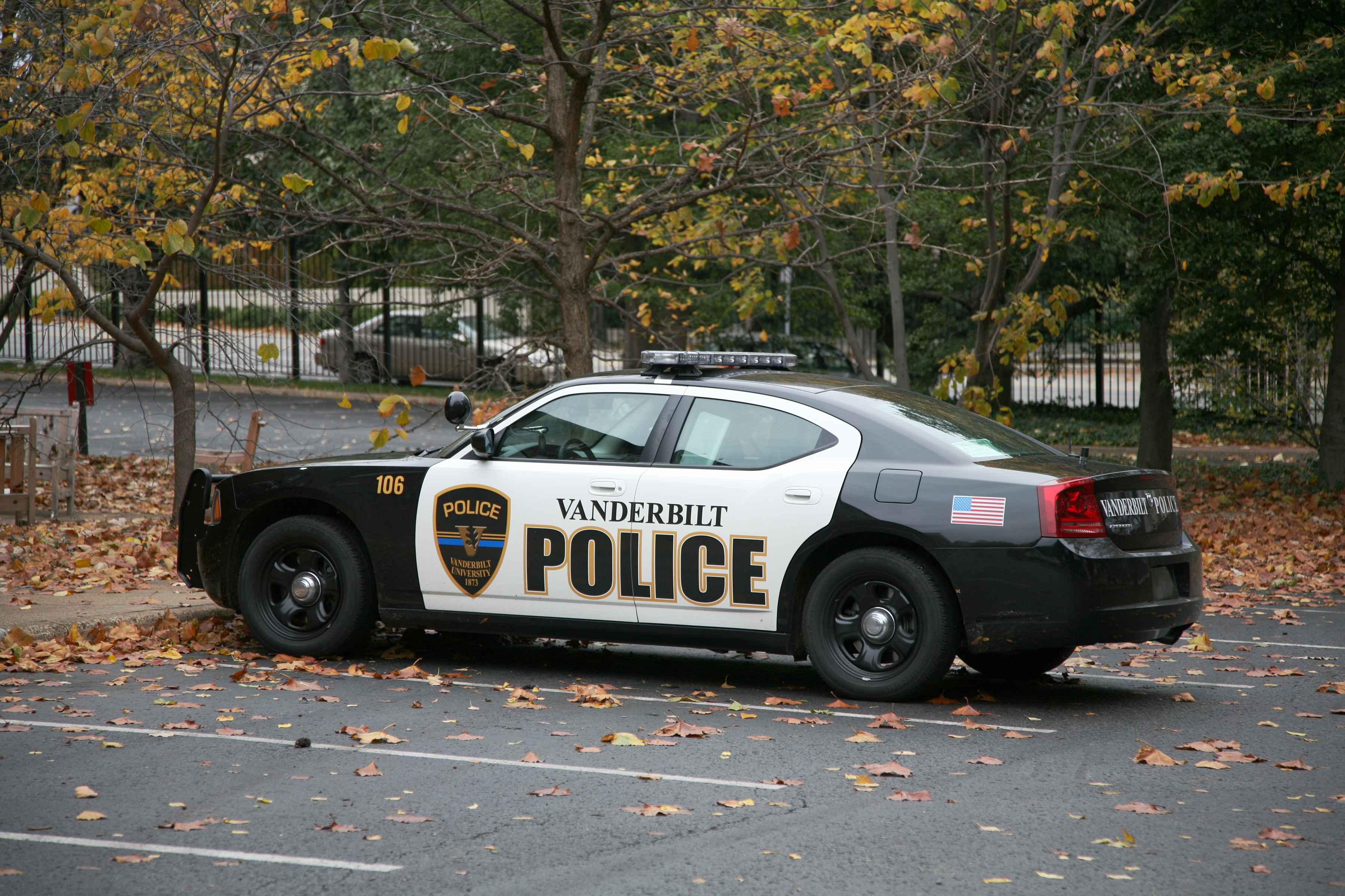 Vanderbilt-University police car, Nashville, Tennessee